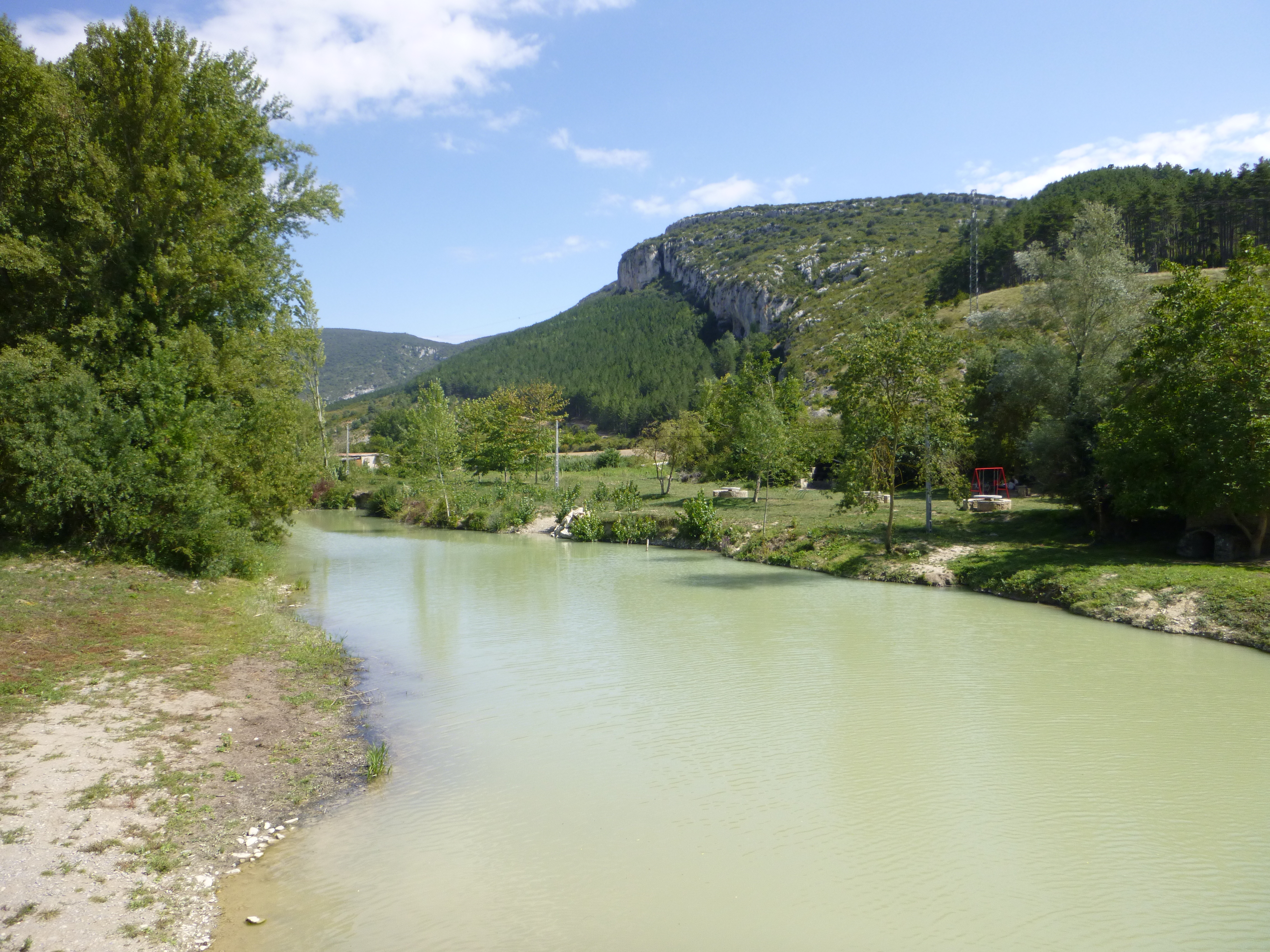 Salazar